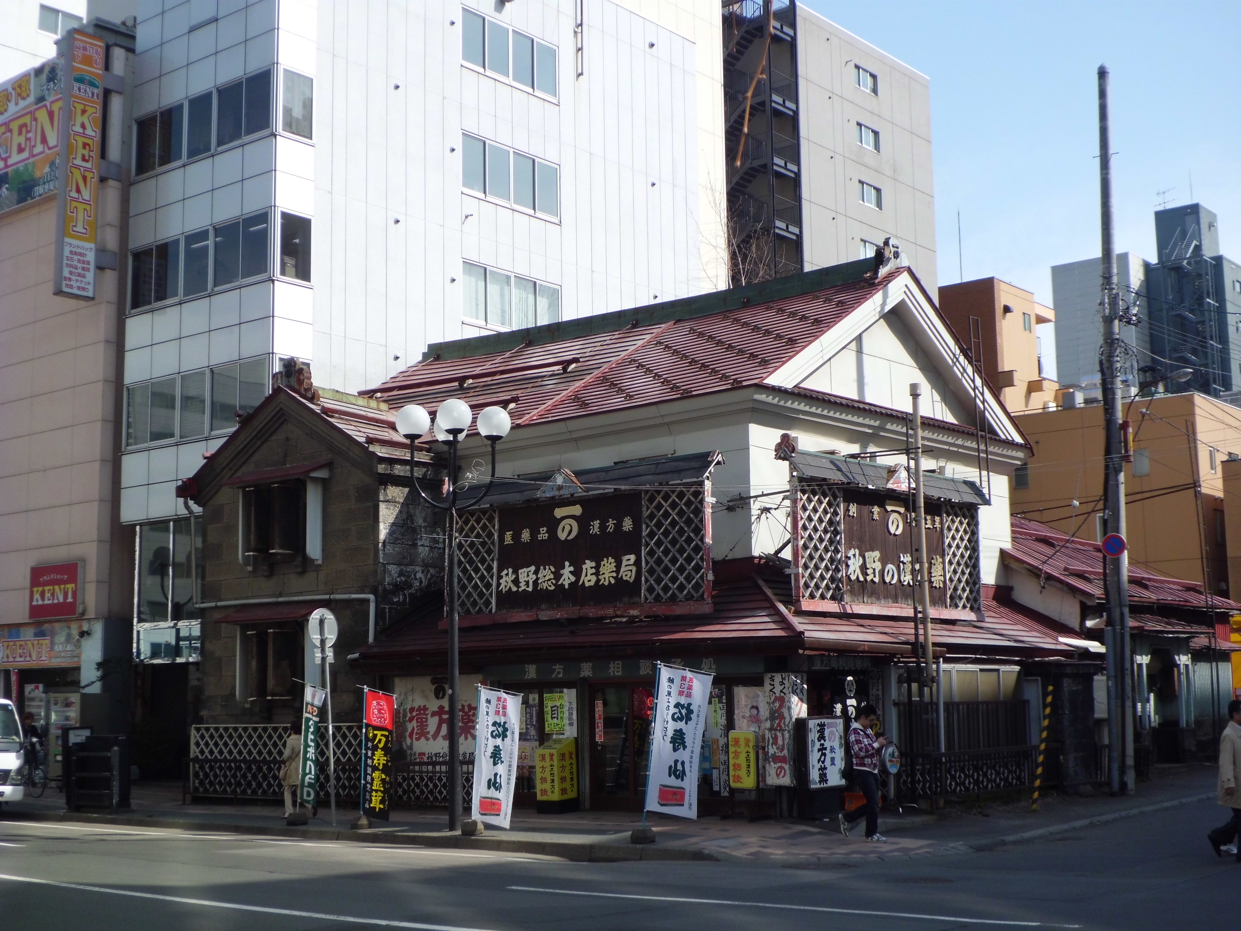 Akino Sohonten Pharmacy in Chuo-ku, Sapporo.